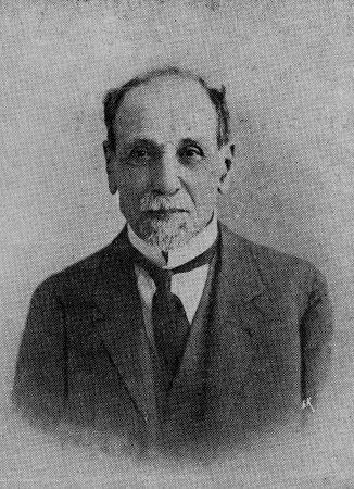 Pavlos Karolidis (1849-1930) Greek University Professor